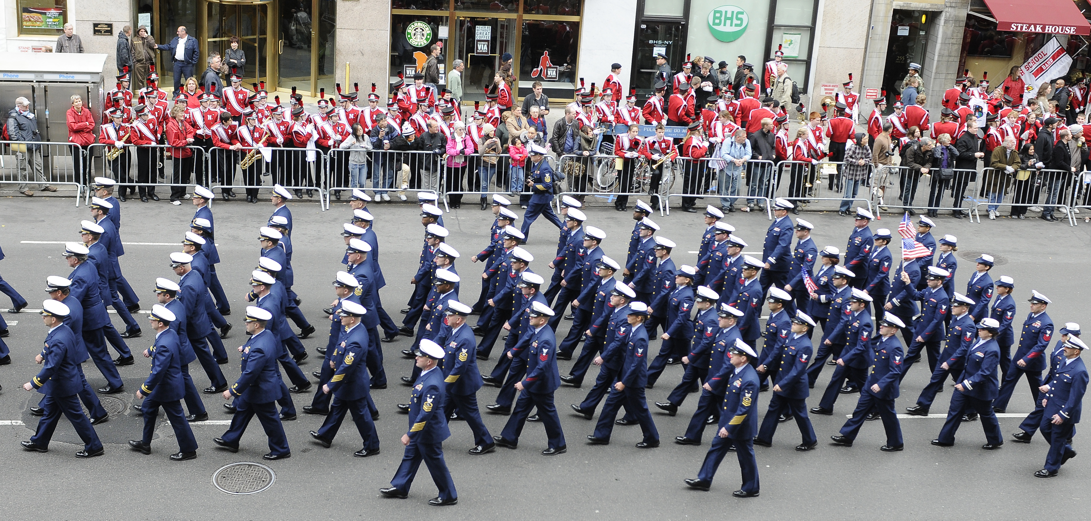 NEW YORK--Members of Coast Guard Sector New York march down 5th Ave. during the Veterans Day Parade in Manhattan Nov. 11, 2009. The annual Veterans Day Parade draws thousands of spectators who watch as Soldiers, Sailors, Marines, Coast Guardsmen and Airmen as they march through Manhattan. (U.S. Coast Guard photo by Petty Officer 2nd Class Annie Elis) Unit: U.S. Coast Guard District 1 DVIDS Tags: Manhattan; Armed Services; Veterans Day Parade; Coast Guard; Sector New York; CGVI; DVIDS Bulk Import